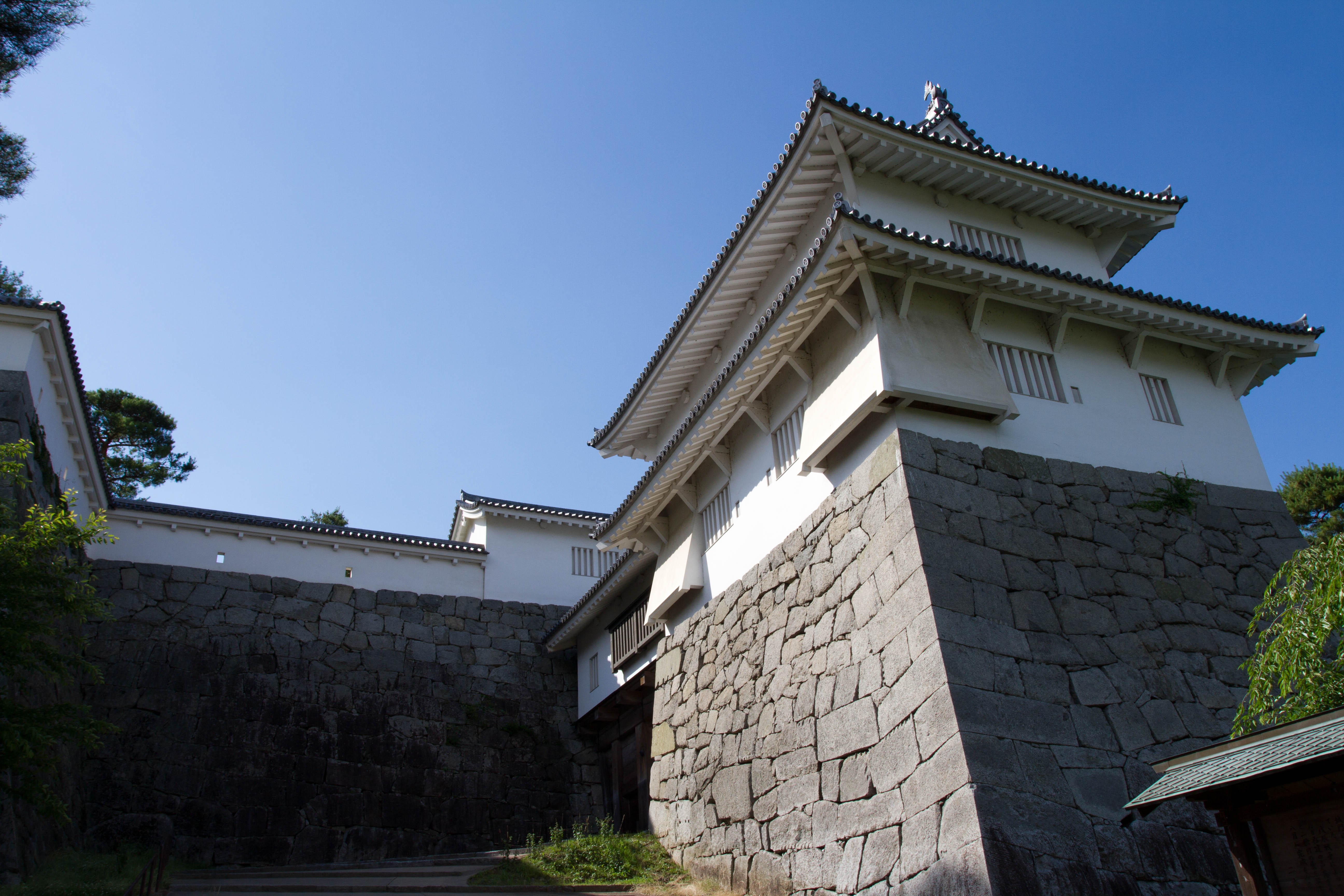 Nihonmatsu Castle, Minowa Gate